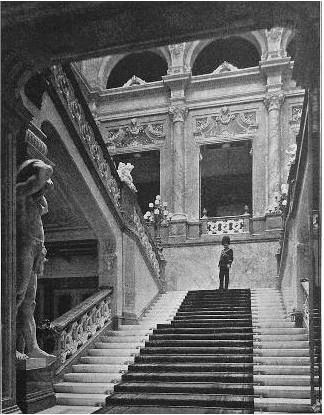 The Main Staircase in the Royal Castle of Budapest, which was reserved for princes.